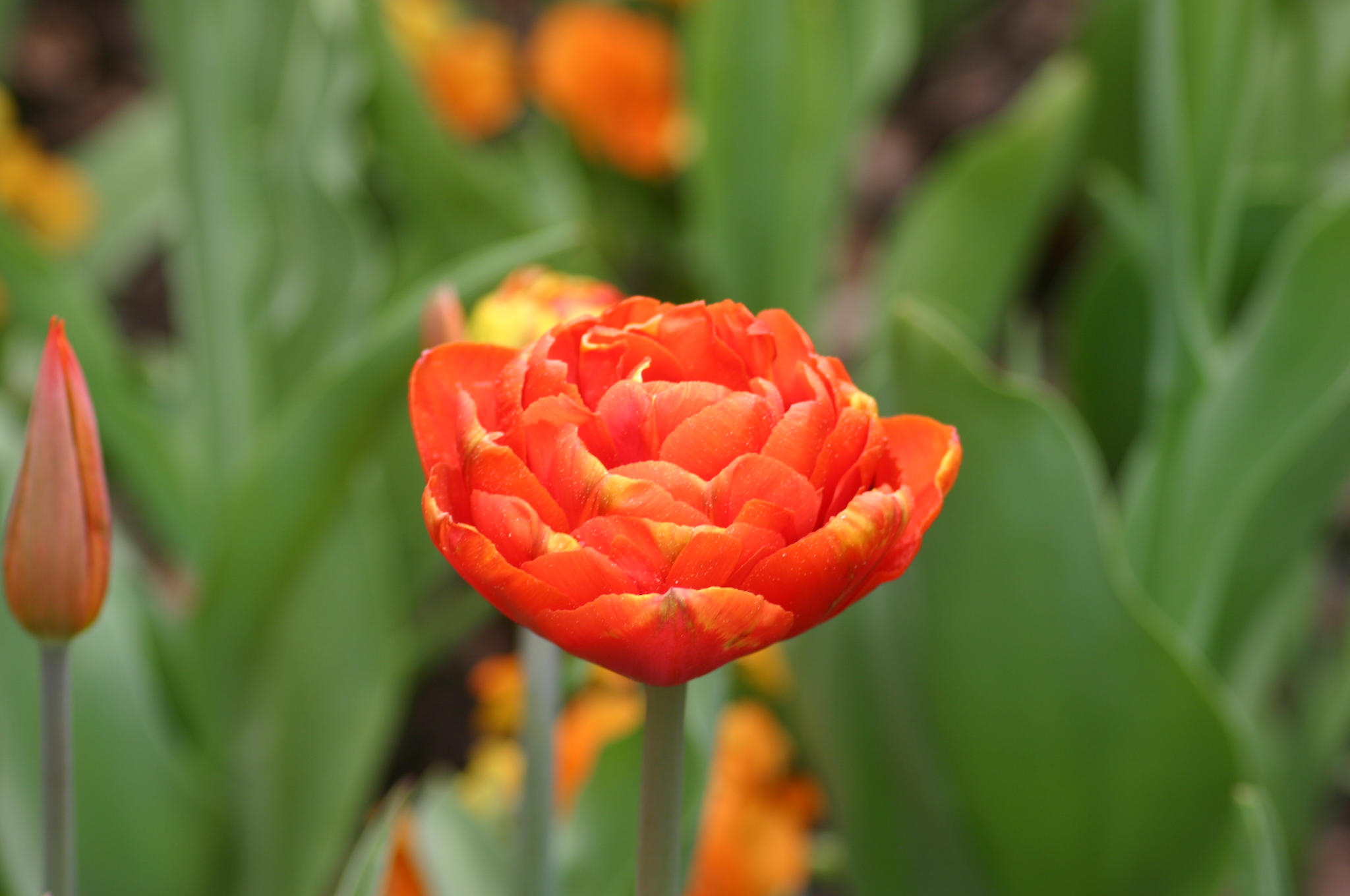 Either: parrot tulip, tulipa "Professor Roentgen" Liliacea doulbe late tulip, Tulipa "Double Dutch" Liliaceae Darwin hybrid tulip, Tulipa "Daydream" Liliaceae Taken at the New York Botanical Gardens in the Bronx. Creative Commons photo by ideonexus. Please feel free to reuse for any purpose!